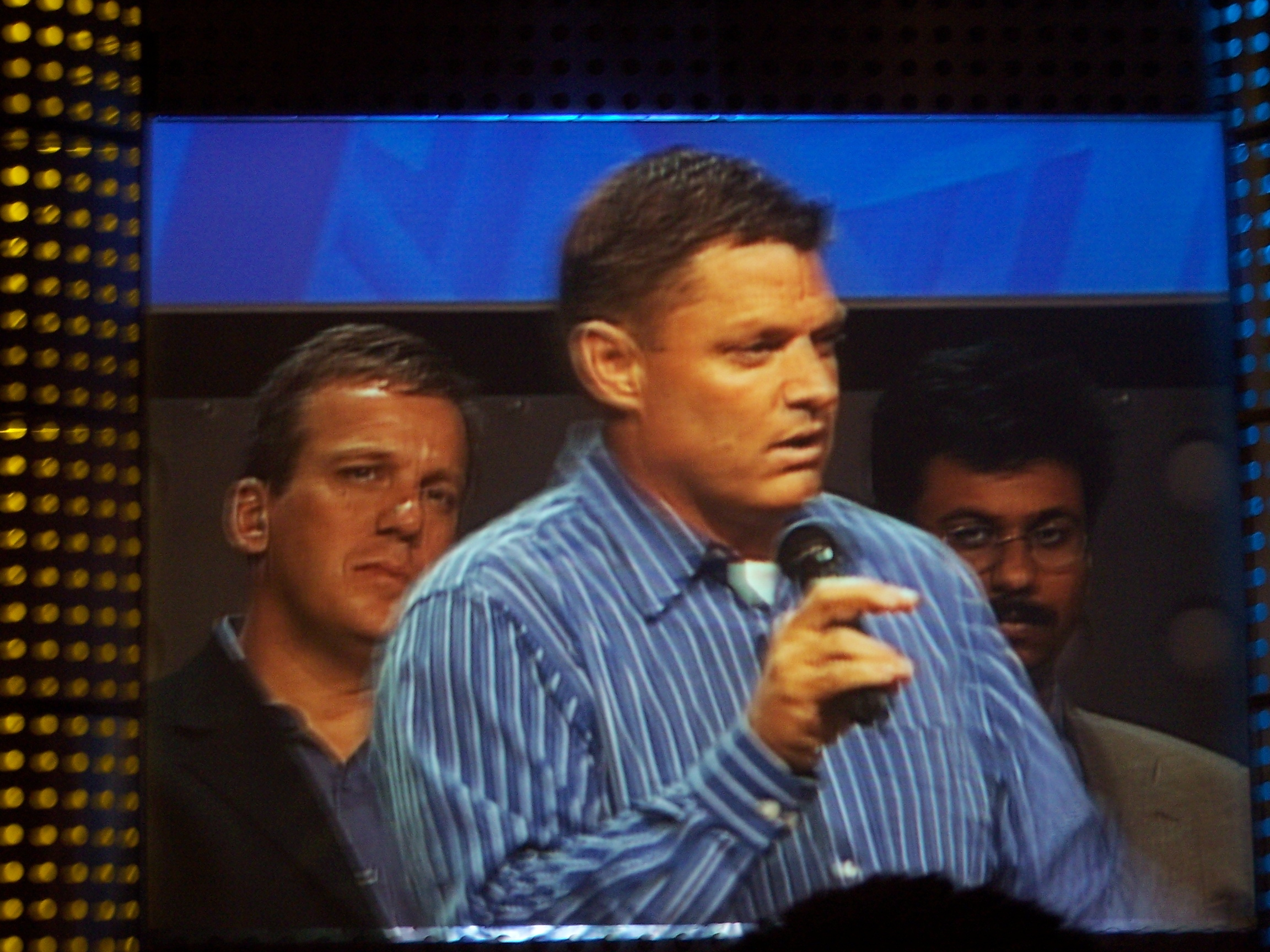 SCO Group CEO Darl McBride talking during a Tuesday morning keynote session at SCO Forum 2004 at the MGM Grand in Las Vegas, Nevada. Senior Vice President and General Manager of SCOsource division Chris Sontag is behind him on the left and Vice President of Engineering Sandy Gupta is behind him on the right.